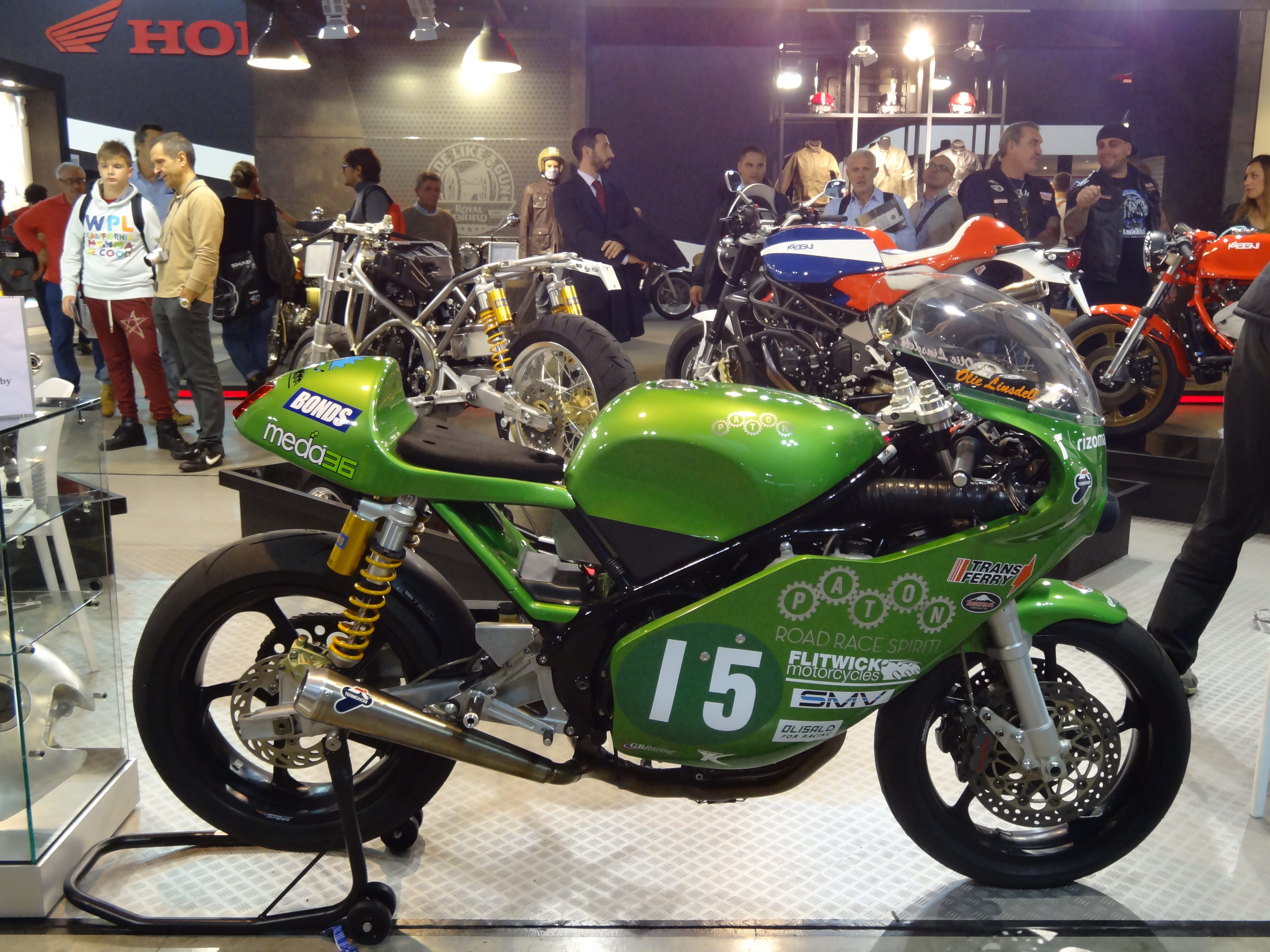 2014 Paton S1 racer at EICMA